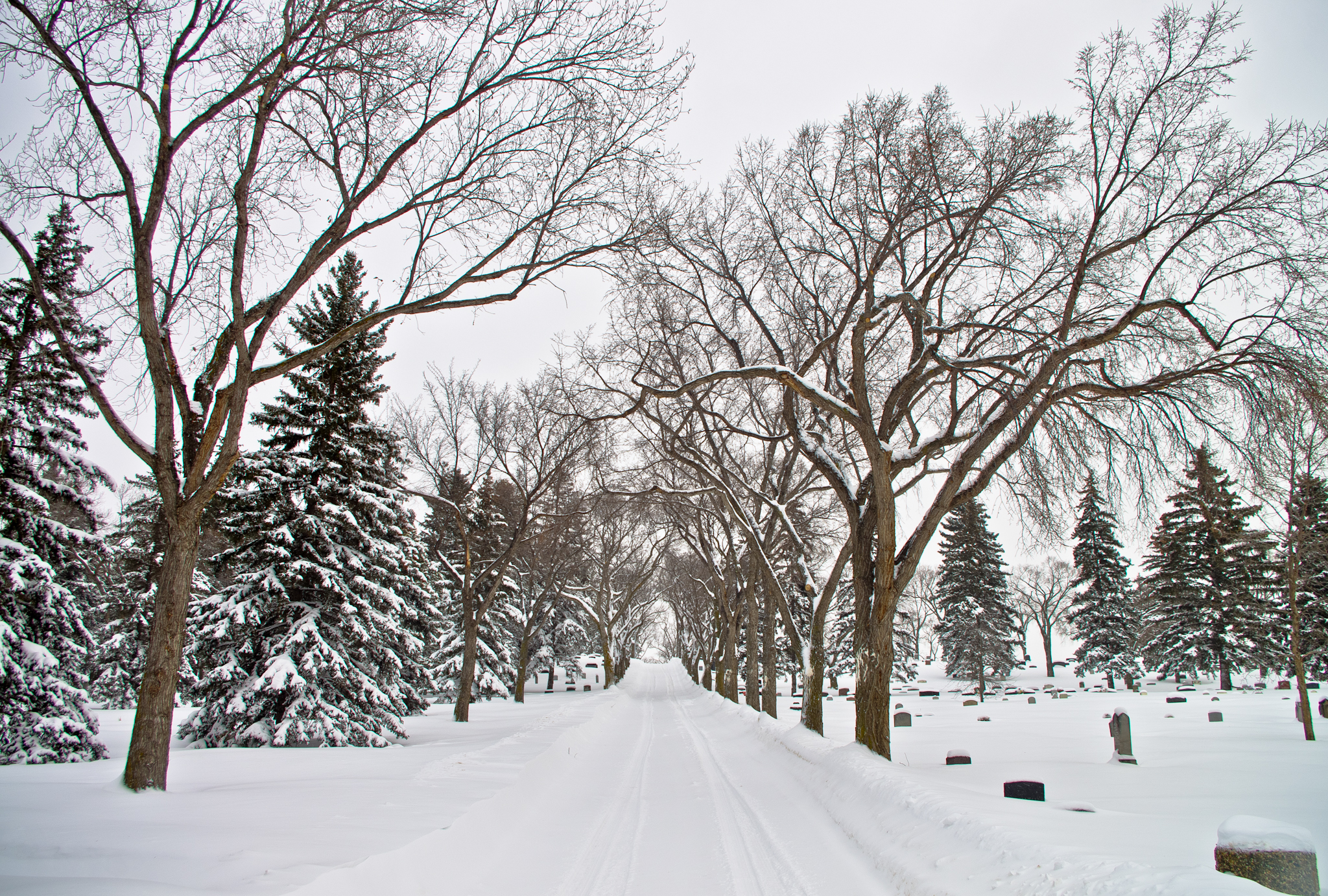 Mt. Pleasant Cemetery Road